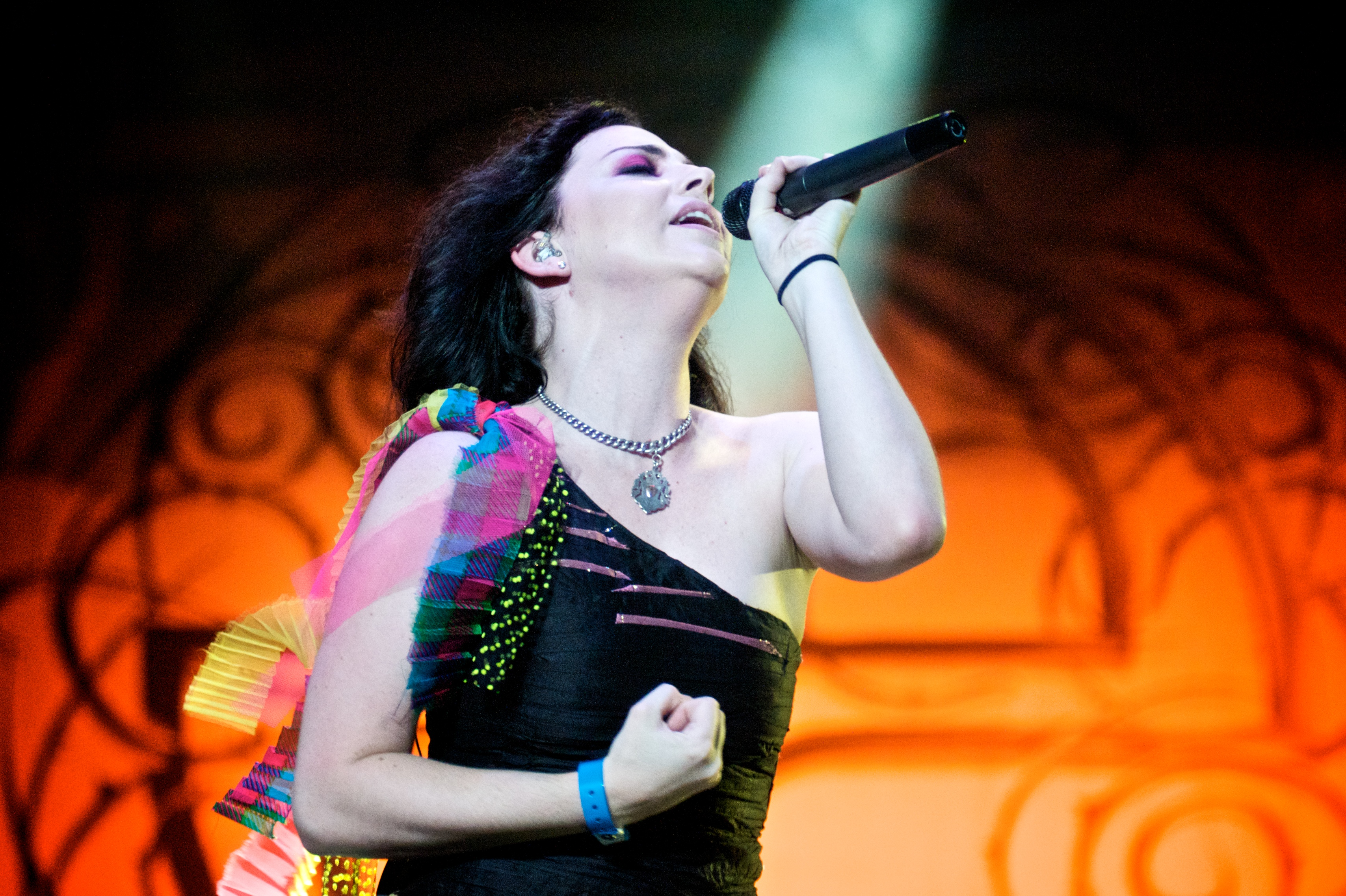 Amy Lee of Evanescence in Maquinária Festival, occurred in November 8 2009 at Chácara do Jóquei, São Paulo, Brazil.